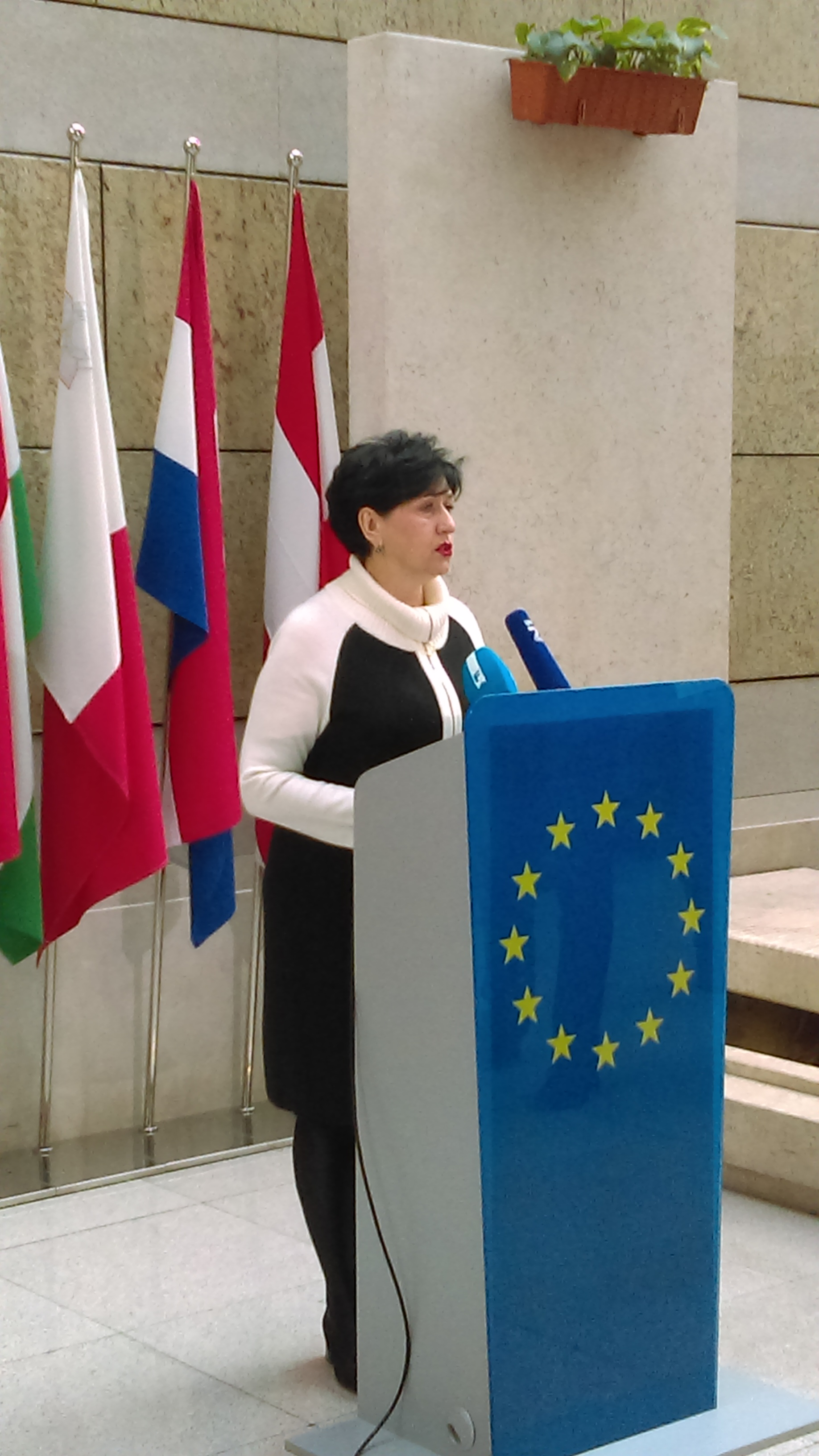 Semiha Borovac, Minister of Human Rights and Refugees of Bosnia and Herzegovina